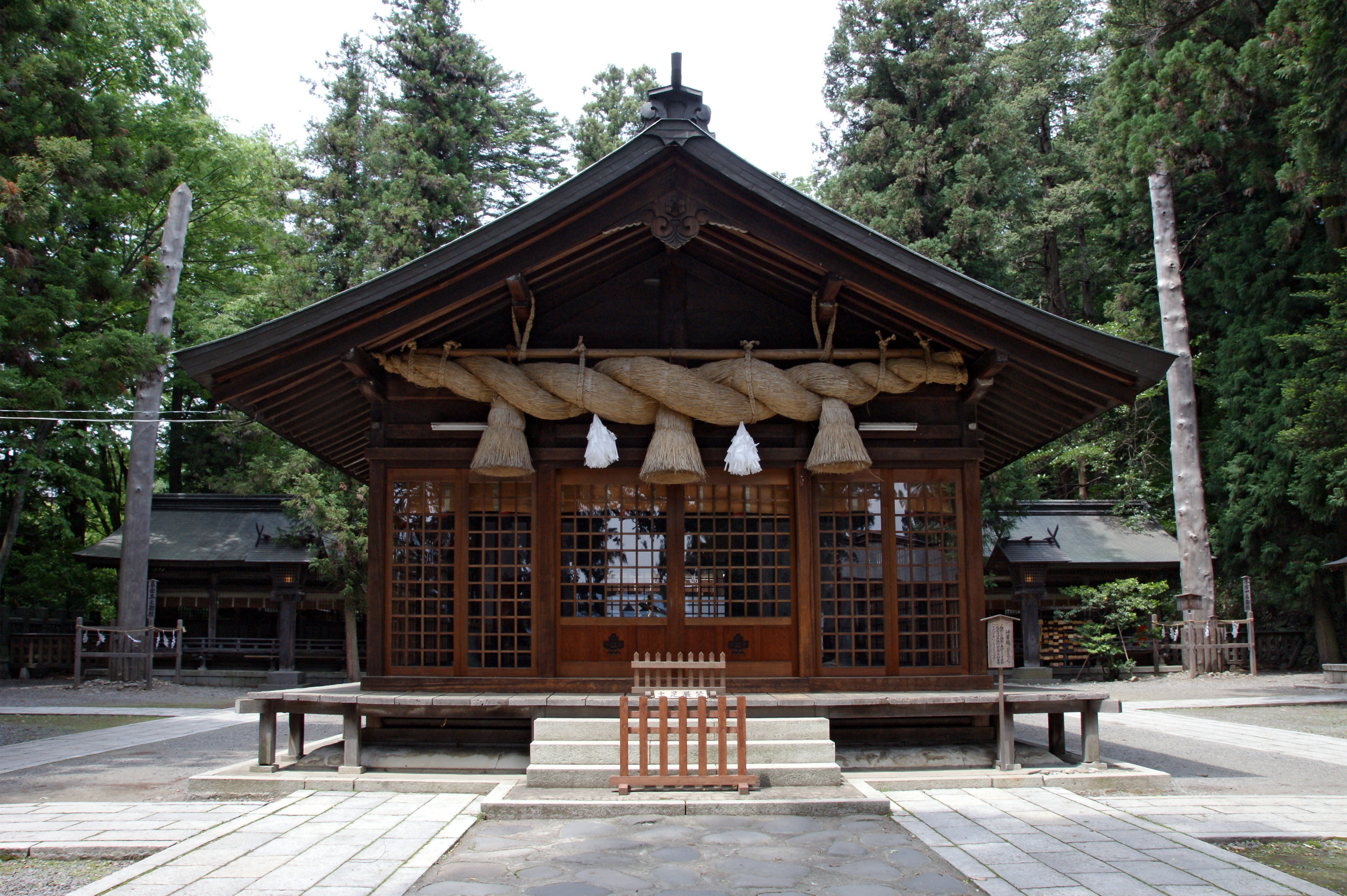 Suwa Taisha Shimosha Harumiya, Shimosuwa, Nagano prefecture, Japan